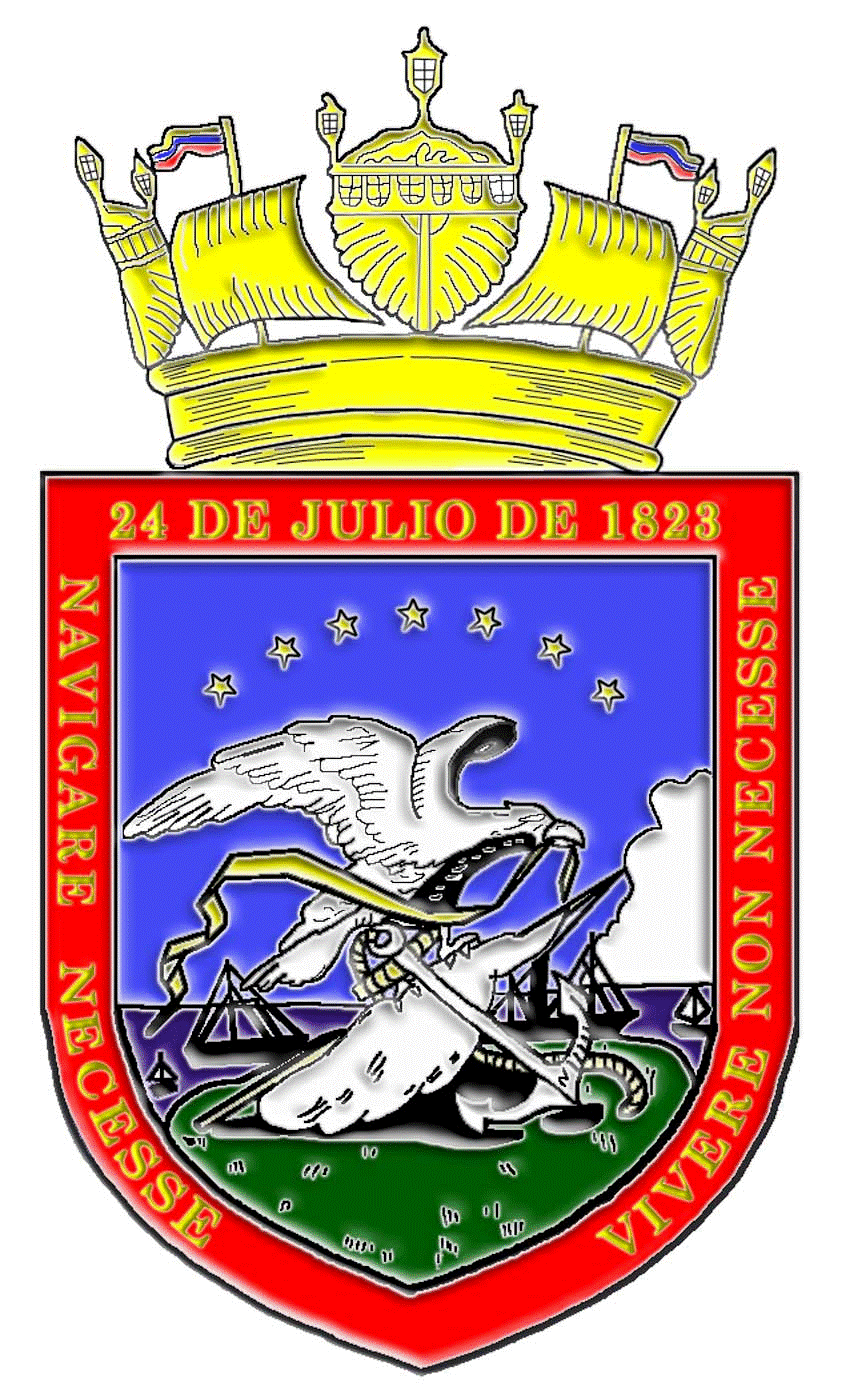 Coat of arms of the Navy of Venezuela